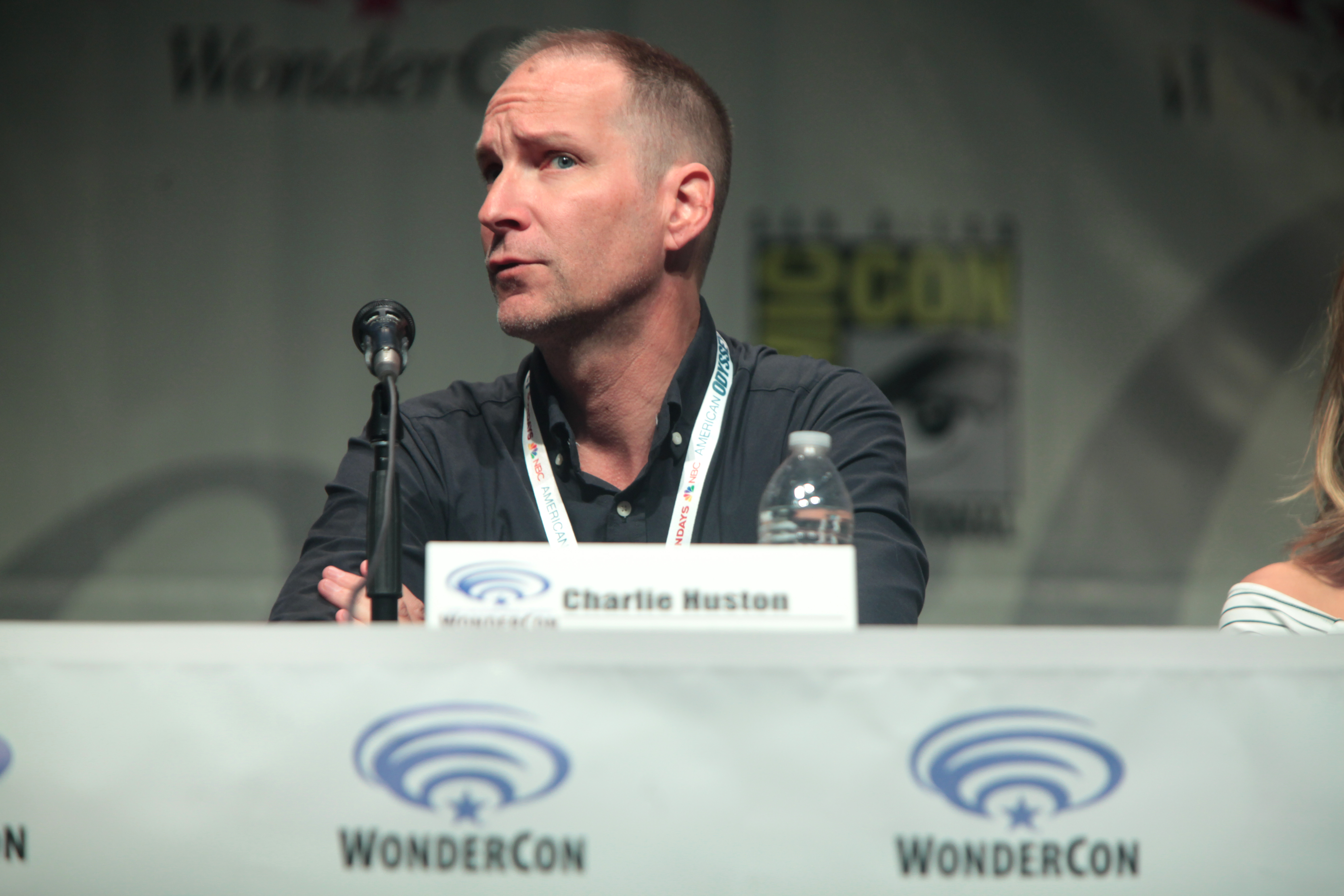 Charlie Huston speaking at the 2015 Wondercon, for "Powers", at the Anaheim Convention Center in Anaheim, California.